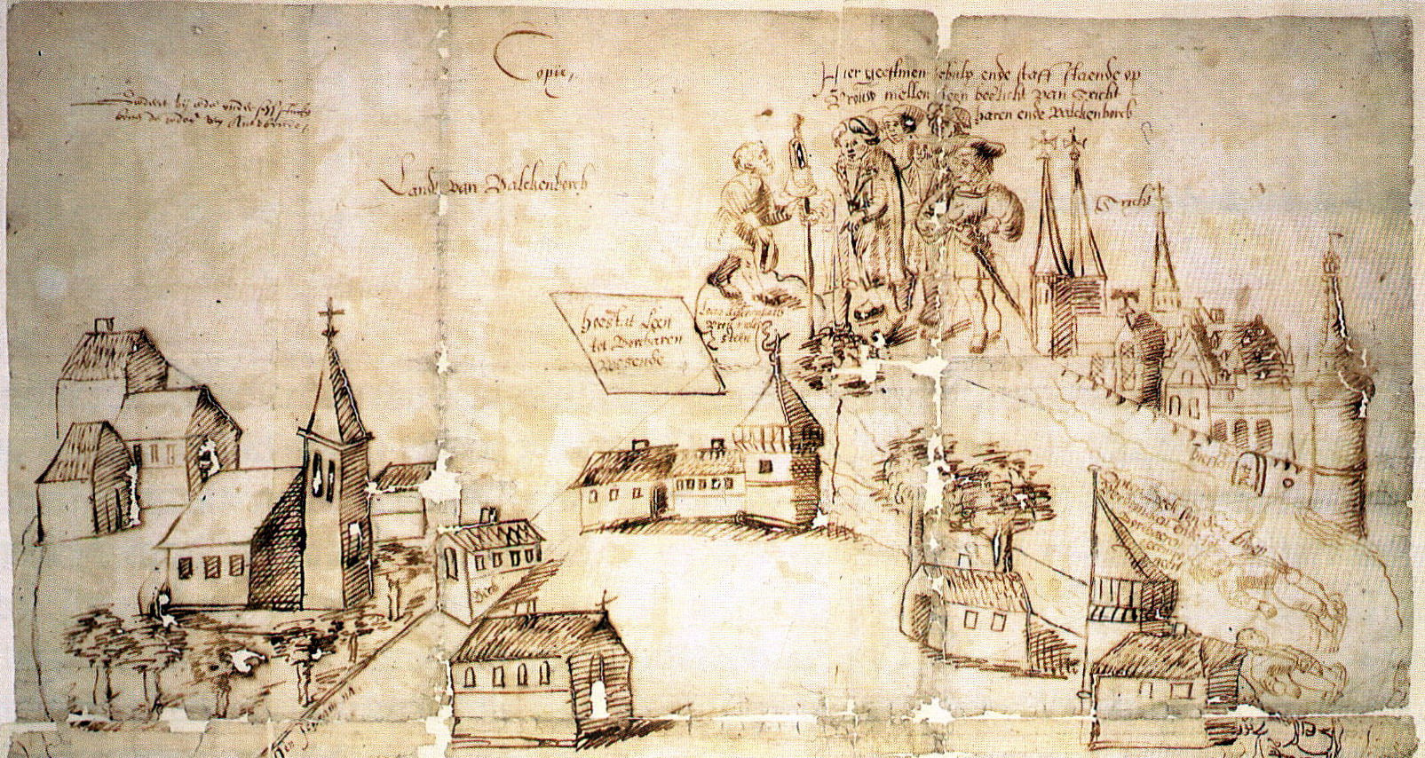 Drawing of Valkenburg (left), Valkenburg Castle (center) and the Commandry Nieuwen Biesen of the Knights of the Teutonic Order in Maastricht (extreme right), as part of a judicial dispute between Valkenburg and Borgharen (c 1500).